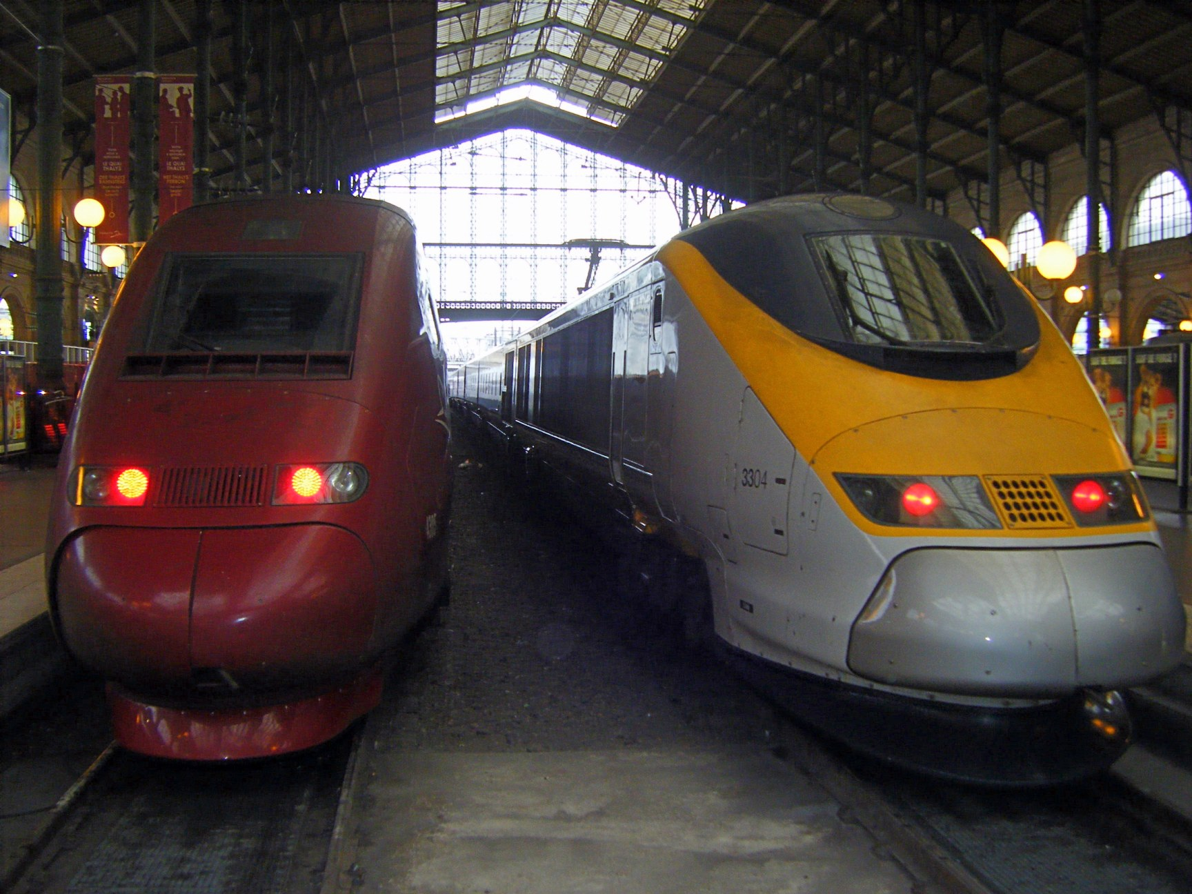 Thalys and TGV TMST NOL Eurostar trainset at Paris Gare de Nord